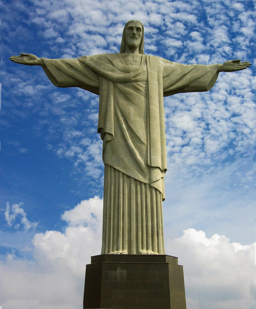 Cristo Redentor, statue on Corcovado mountain in Rio de Janeiro, by Paul Landowski